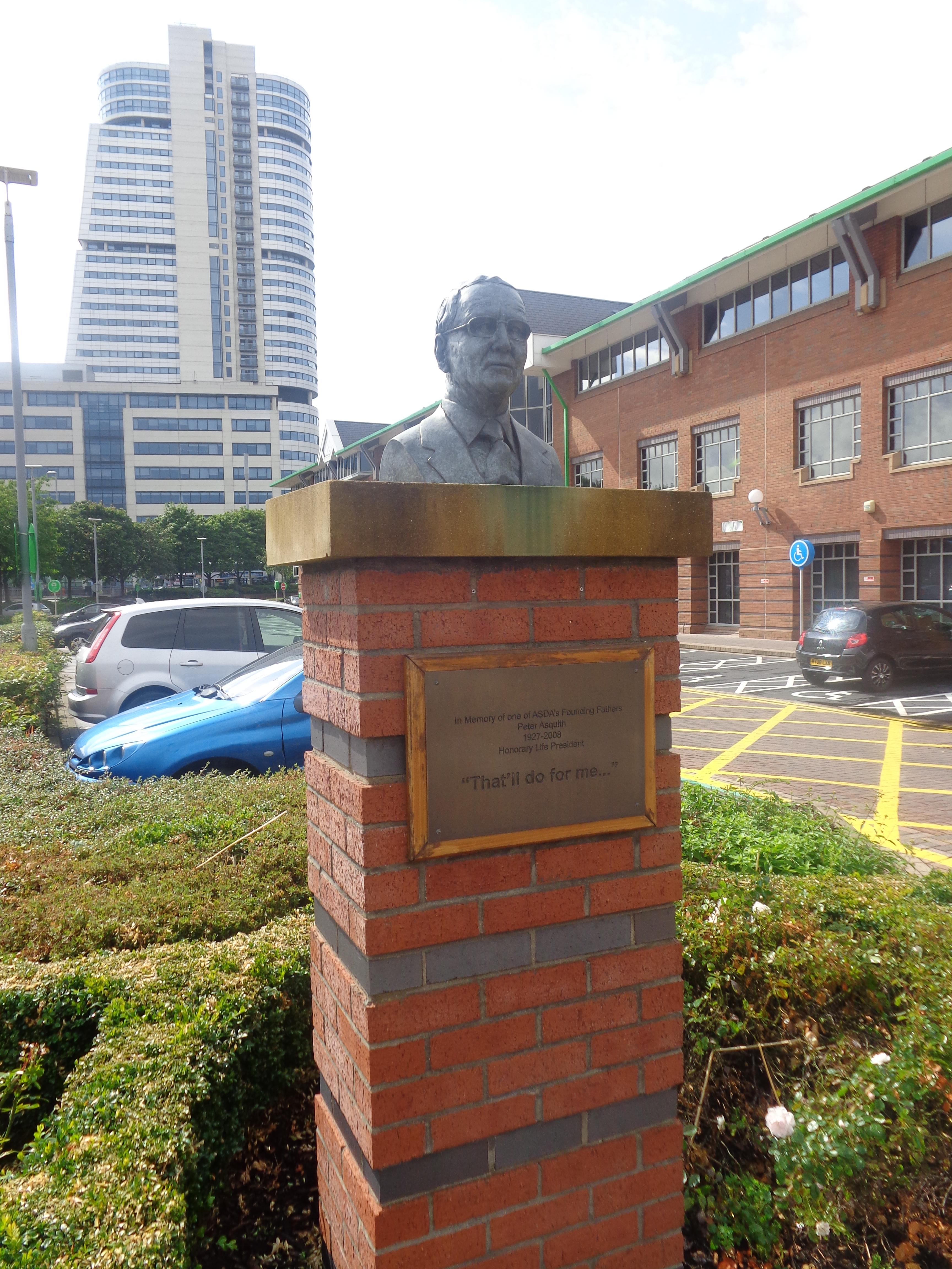 Bust of Asda founder Peter Asquith outside Asda House, Leeds, West Yorkshire. Bridgewater Place can be seen behind. Taken on the afternoon of Saturday the 19th of July 2014.